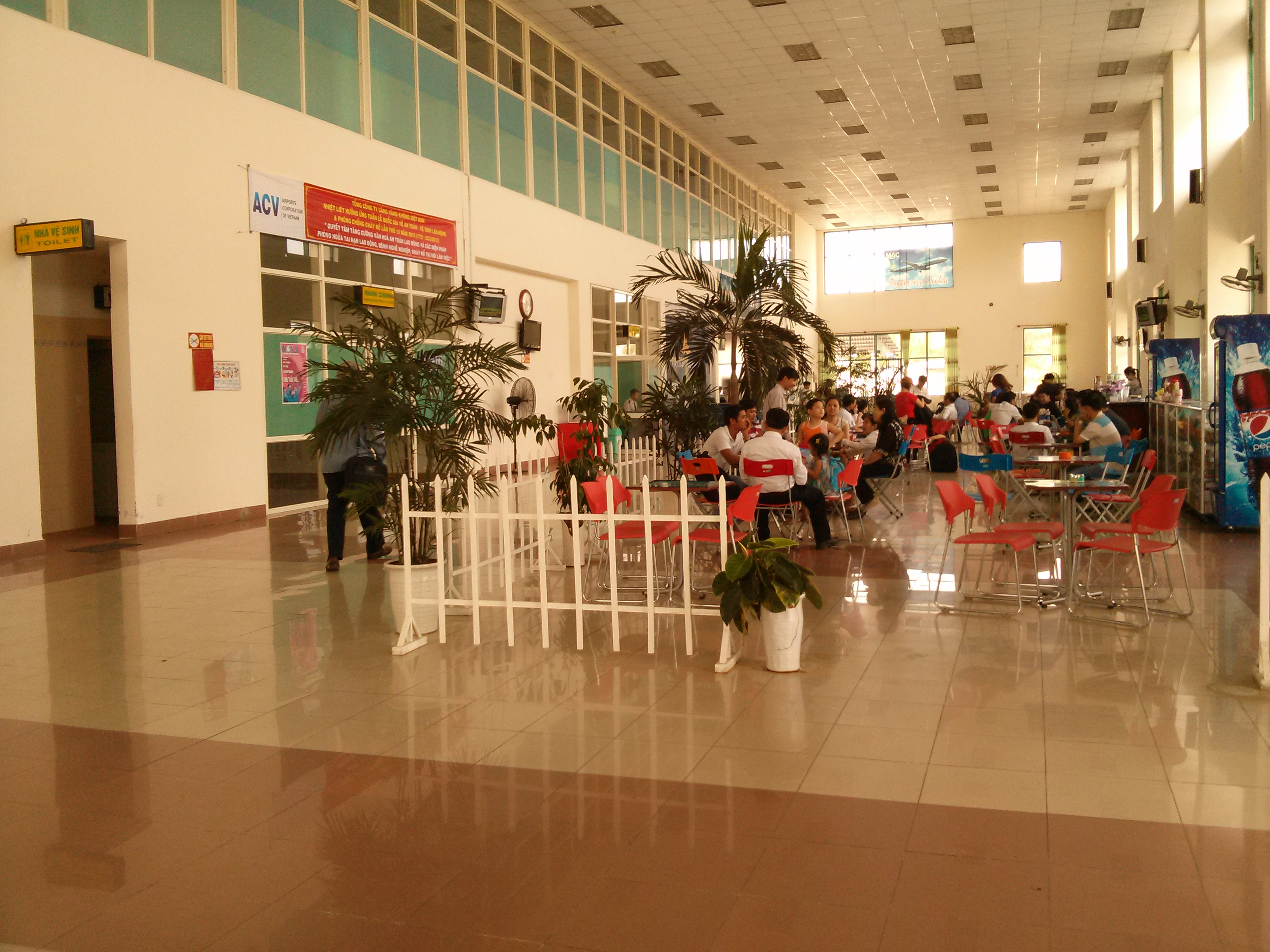 Chu Lai Airport, inside terminal - 02 May 2013